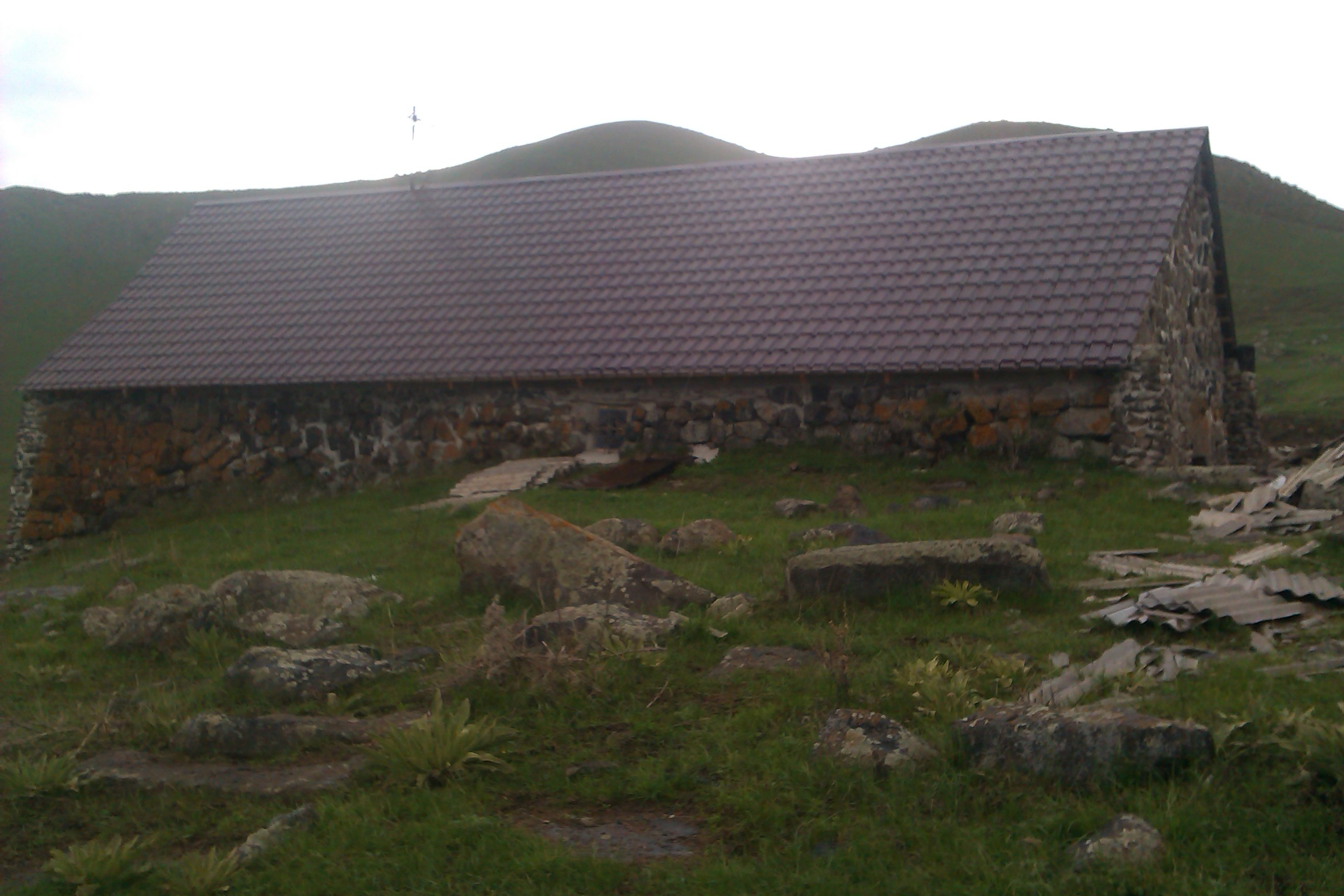 Church Astvatsatsin in Vaghaver, near Fantan, Kotayk, Armenia